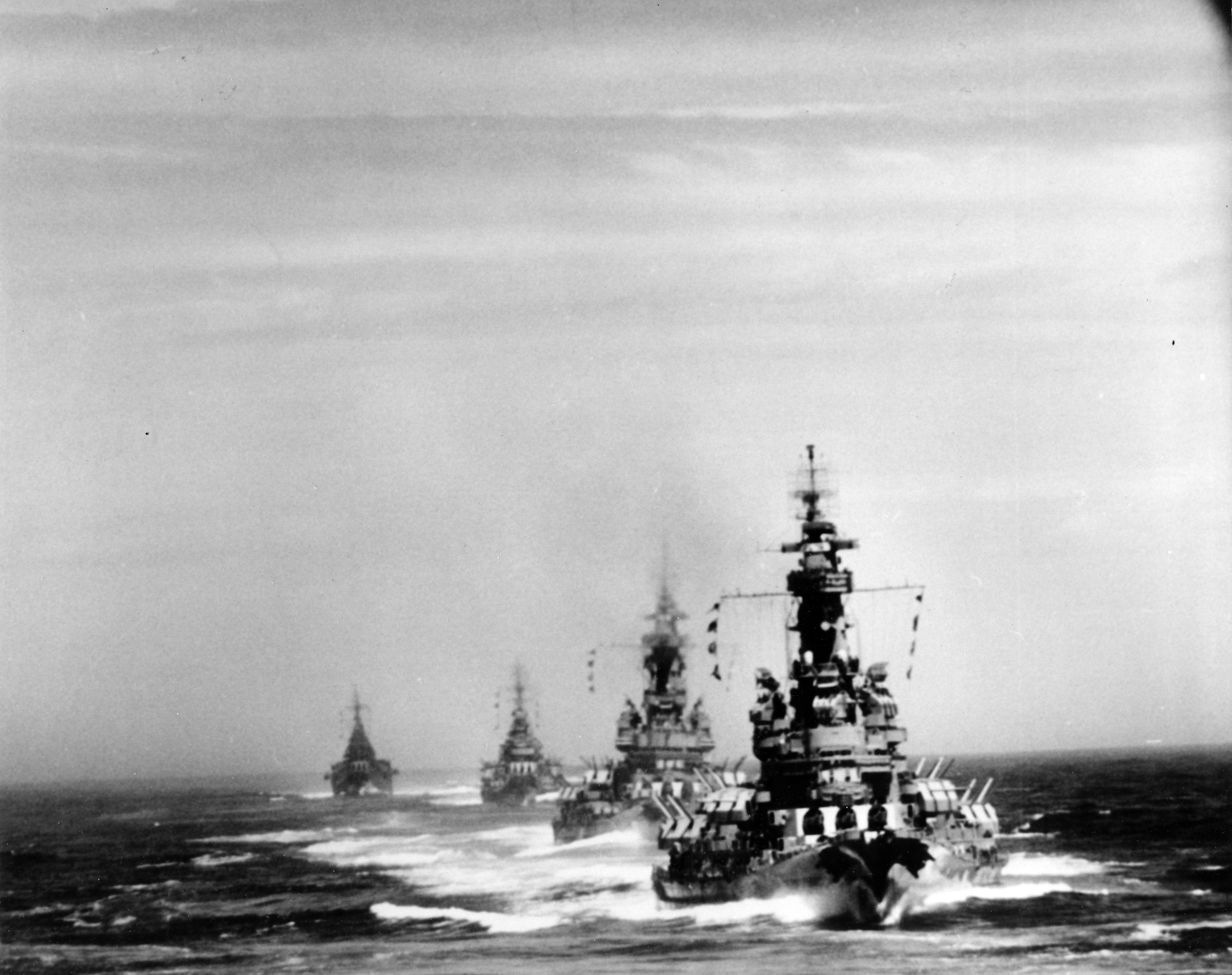 Battleships and heavy cruisers steam in column off Kamaishi, at the time they bombarded the iron works there, as seen from USS South Dakota (BB-57). USS Indiana (BB-58) is the nearest ship, followed by USS Massachusetts (BB-59). Cruisers Chicago (CA-136) and Quincy (CA-71) bring up the rear. Official U.S. Navy Photograph, now in the collections of the National Archives.